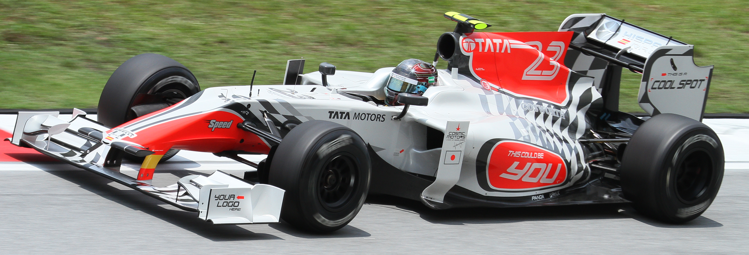 Formula One 2011 Rd.2 Malaysian GP: Vitantonio Liuzzi (HRT) during the second practice session on Friday.